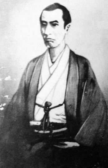 a Japanese man 吉田松陰 (Shoin Yoshida)